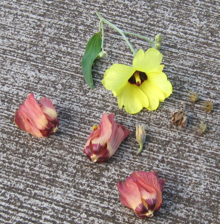 Hibiscus hastatus flower